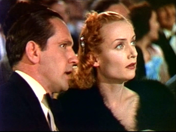 Screenshot of Fredric March and Carole Lombard from the film Nothing Sacred.